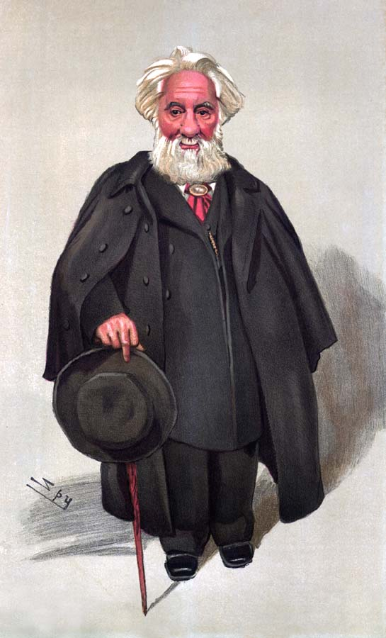 Caricature of Sir William Huggins (1824-1910). Caption read "Spectroscopic astronomy".